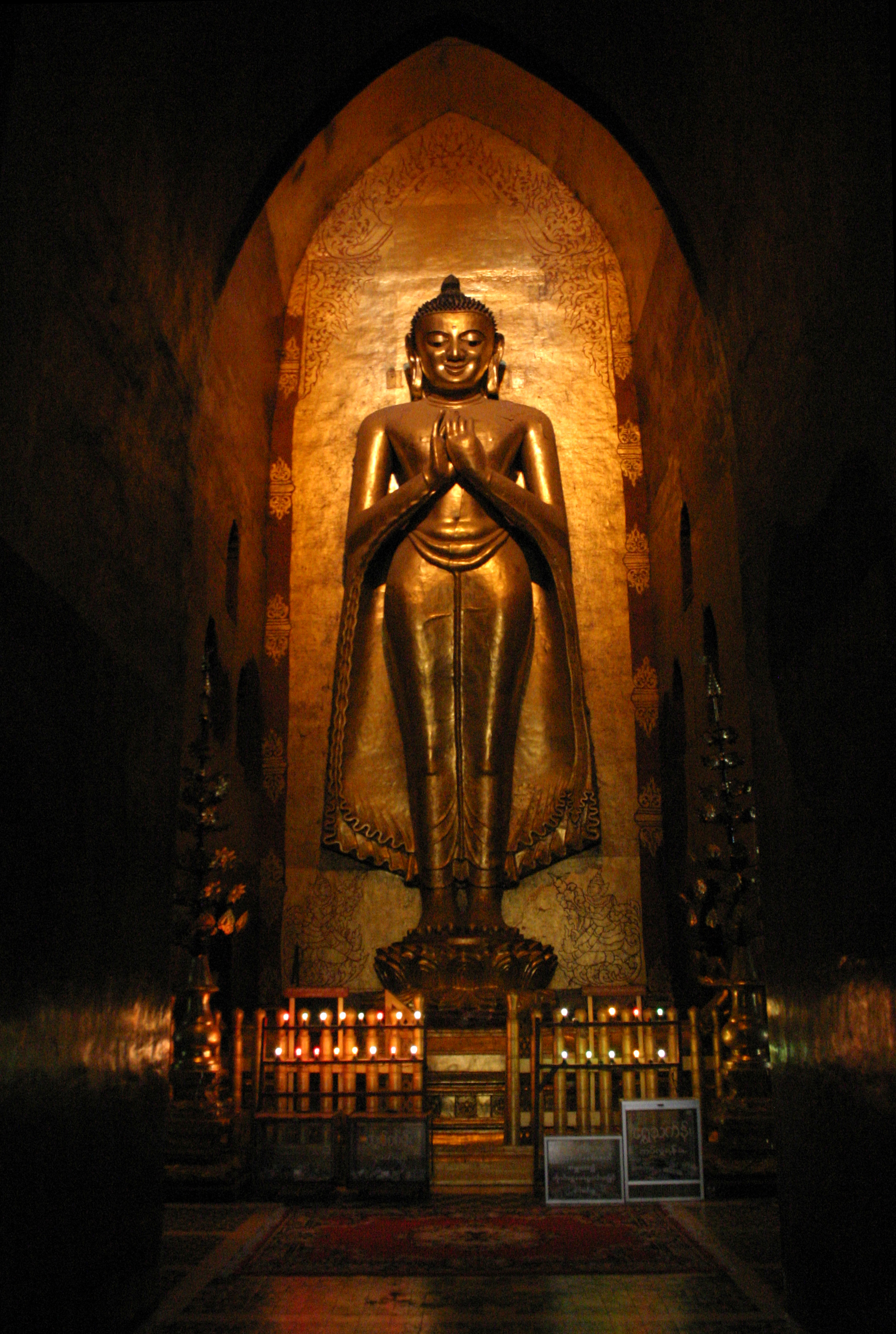 the statue of Kassapa Buddha, Ananda Temple in Bagan, Myanmar.